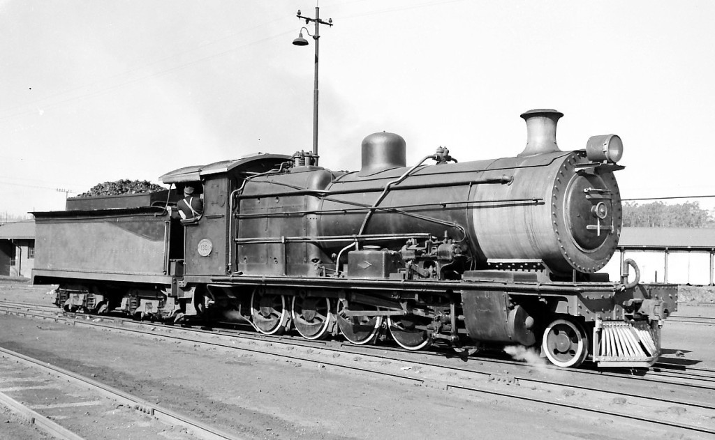 South African Railways Class 1A 1301 (4-8-0)Ex Natal Government Railways "Improved Hendrie B" 25Location: Mason's Mill Loco